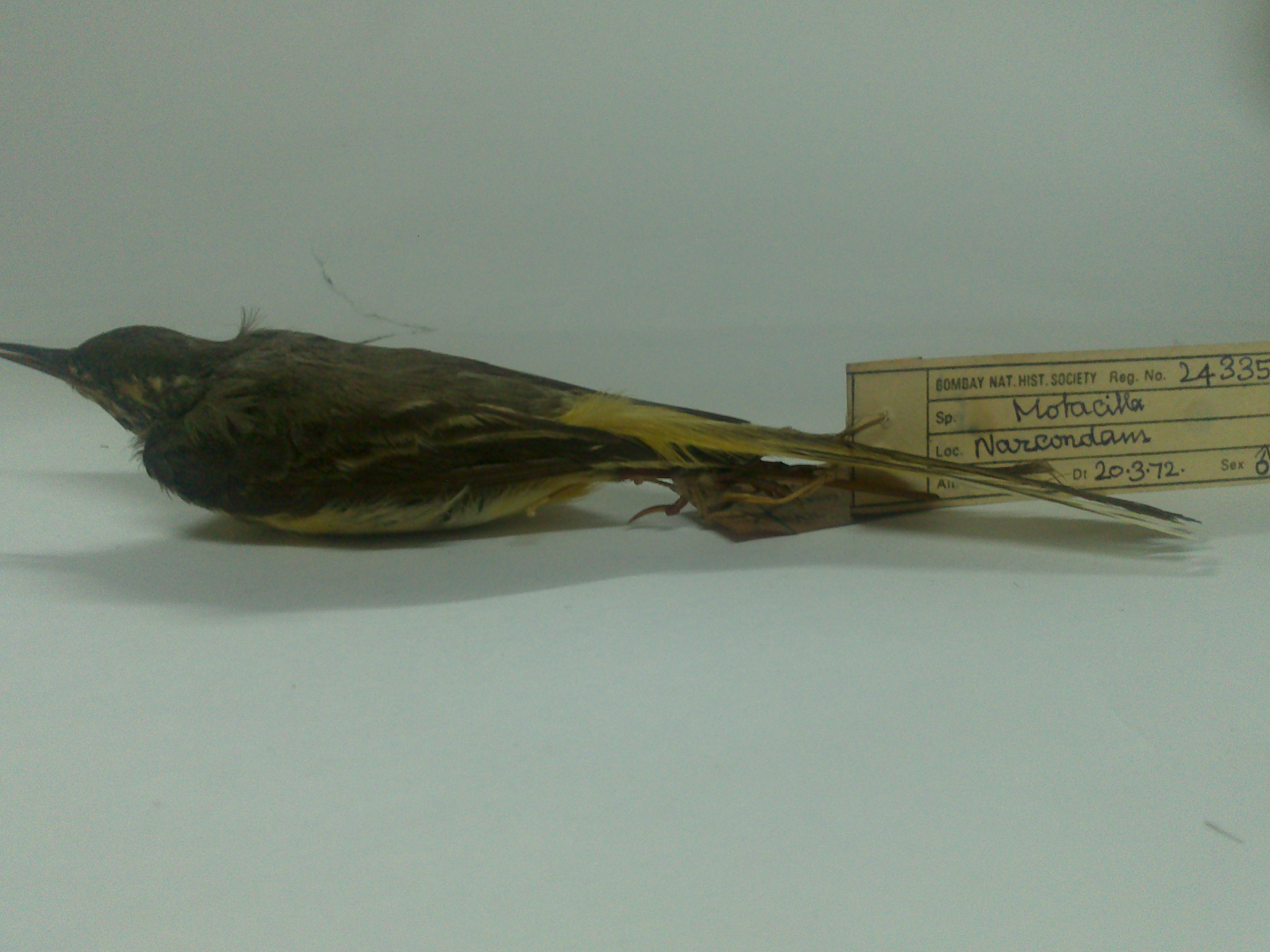 A wagtail (Species: Motacilla) collected by naturalist Humayun Abdulali at Narcondam, an island in the Andaman sea, India in 1972.